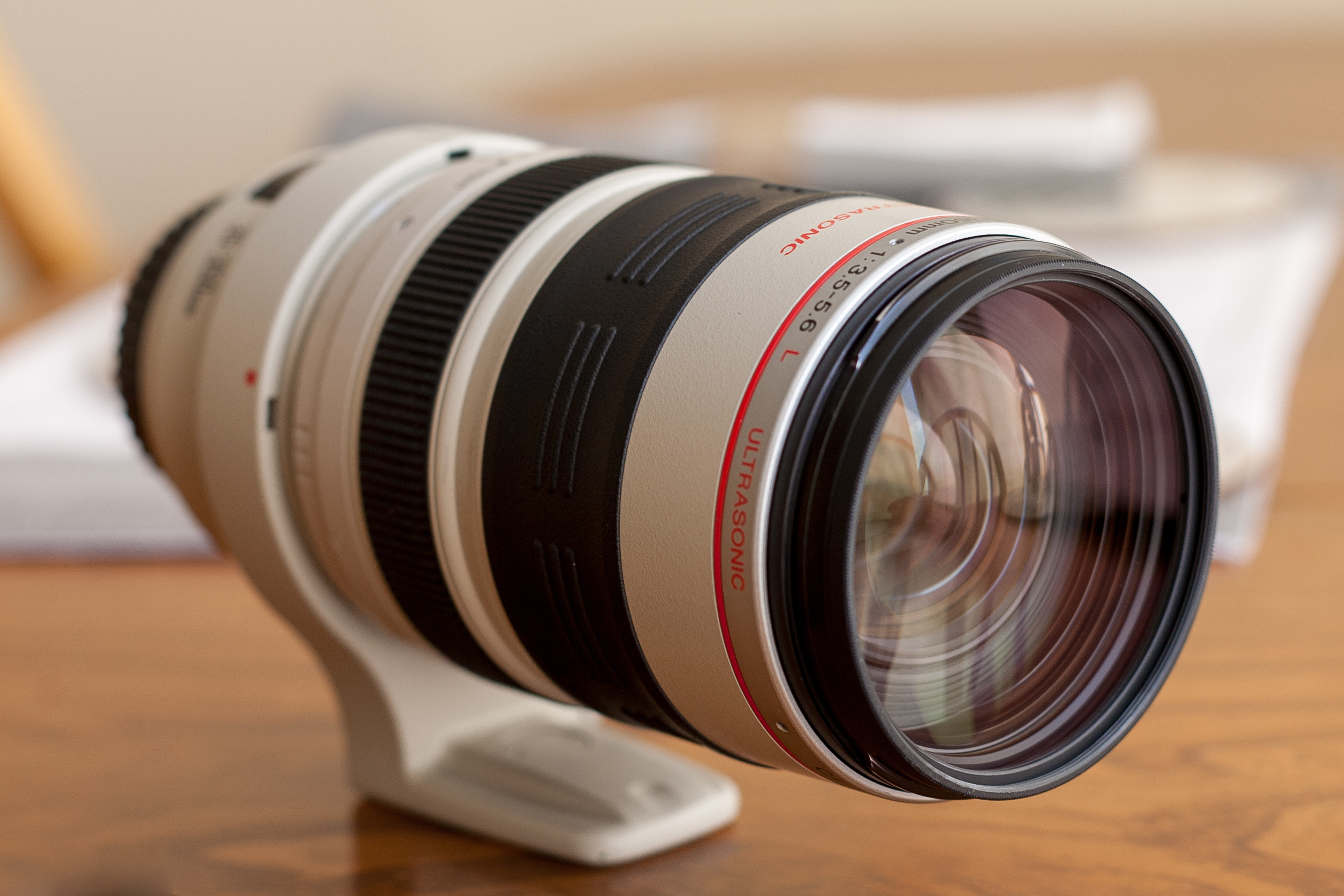 Canon EF 35-350mm f/3.5-5.6L interchangeable lens.